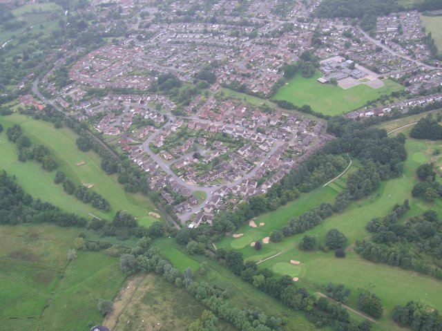 Eaton (aerial) The bottom corner of the housing estate is at approx. TG213057, although the view encompasses more squares. Contents: Marston Marshes (bottom) - a publicly accessible nature reserve bordering the River Yare; Eaton Golf Club (fairways visible left and right); Fairways school and playing fields (upper right); part of the disused Civil Service Sports Ground (top right corner), soon to be developed for housing; River Yare (top left); housing estates (centre) dating from the 1970s and 1980s; Marston Lane (mid-left to bottom right) separates the golf course from the housing and the marshes, and is now a cycle/pedestrian path connecting Eaton to Ipswich Road.